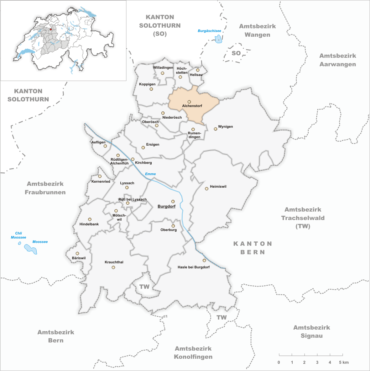 Municipality Alchenstorf